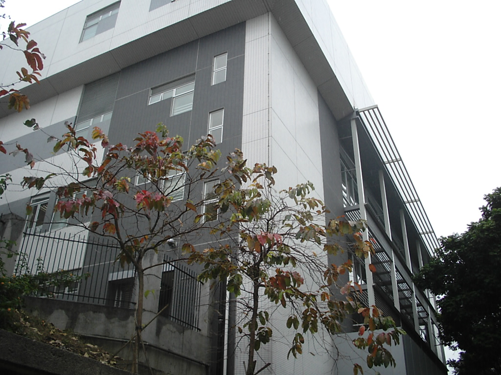 South Kowloon Magistracy